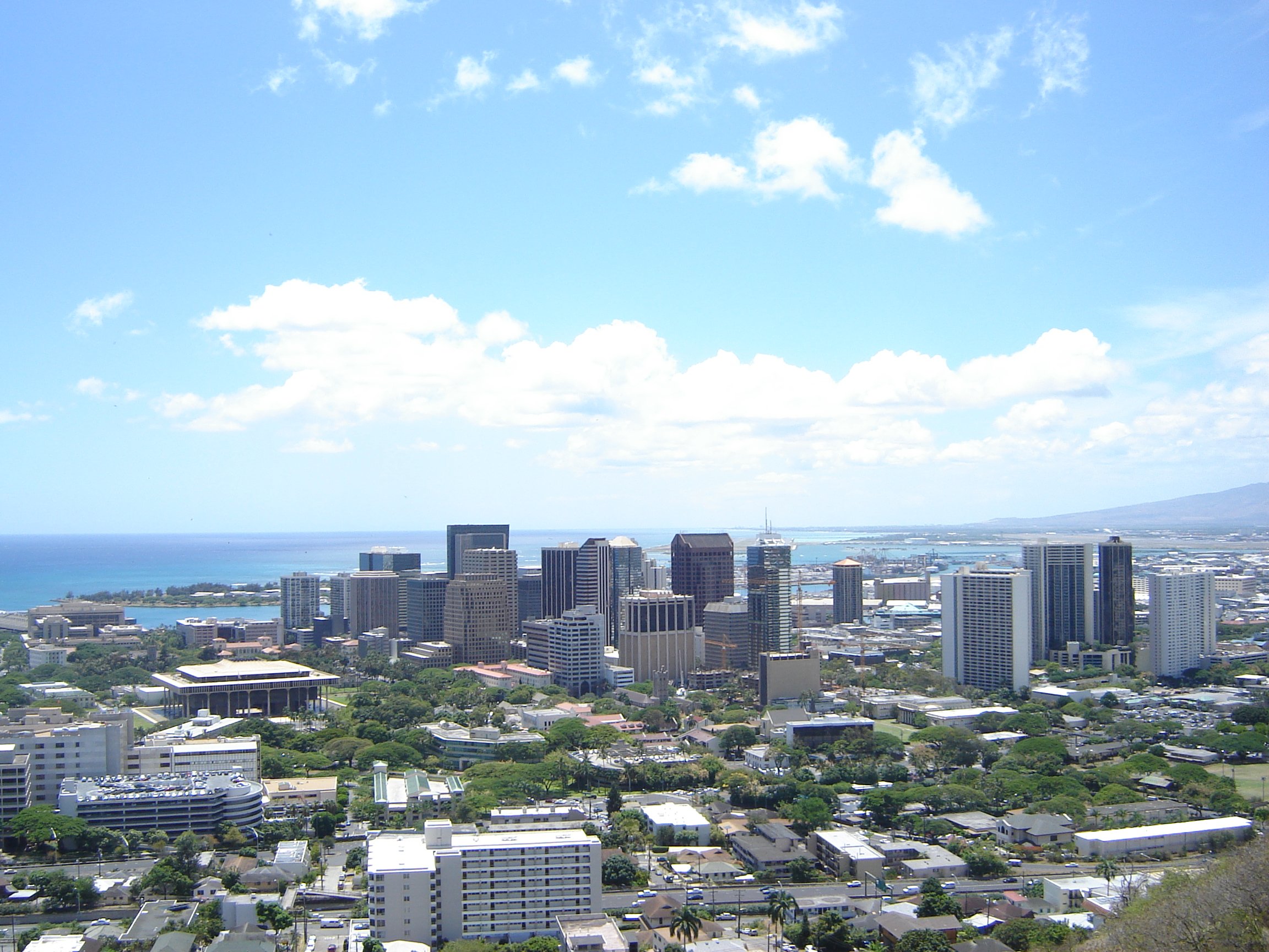 Downtown Honolulu, HI, view from Punch Bowl.